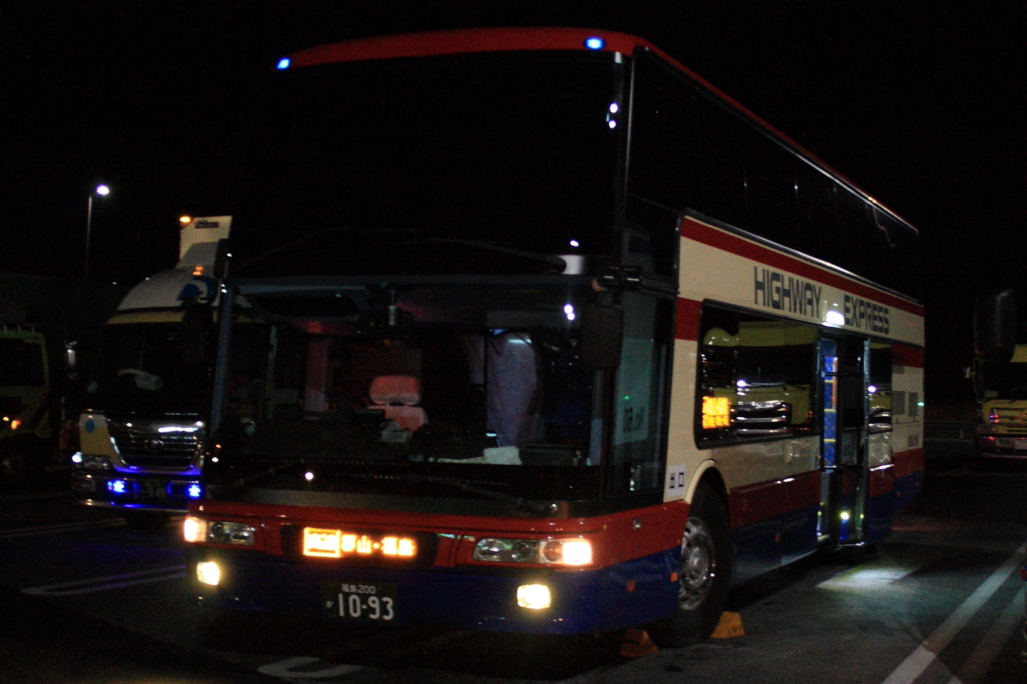 This highway bus vehicle of Fukushima from Osaka. It takes a picture in the SIN-MEISHIN Expressway Tsuchiyama Service Area (Koka City,Shiga Prefecture,Japan).